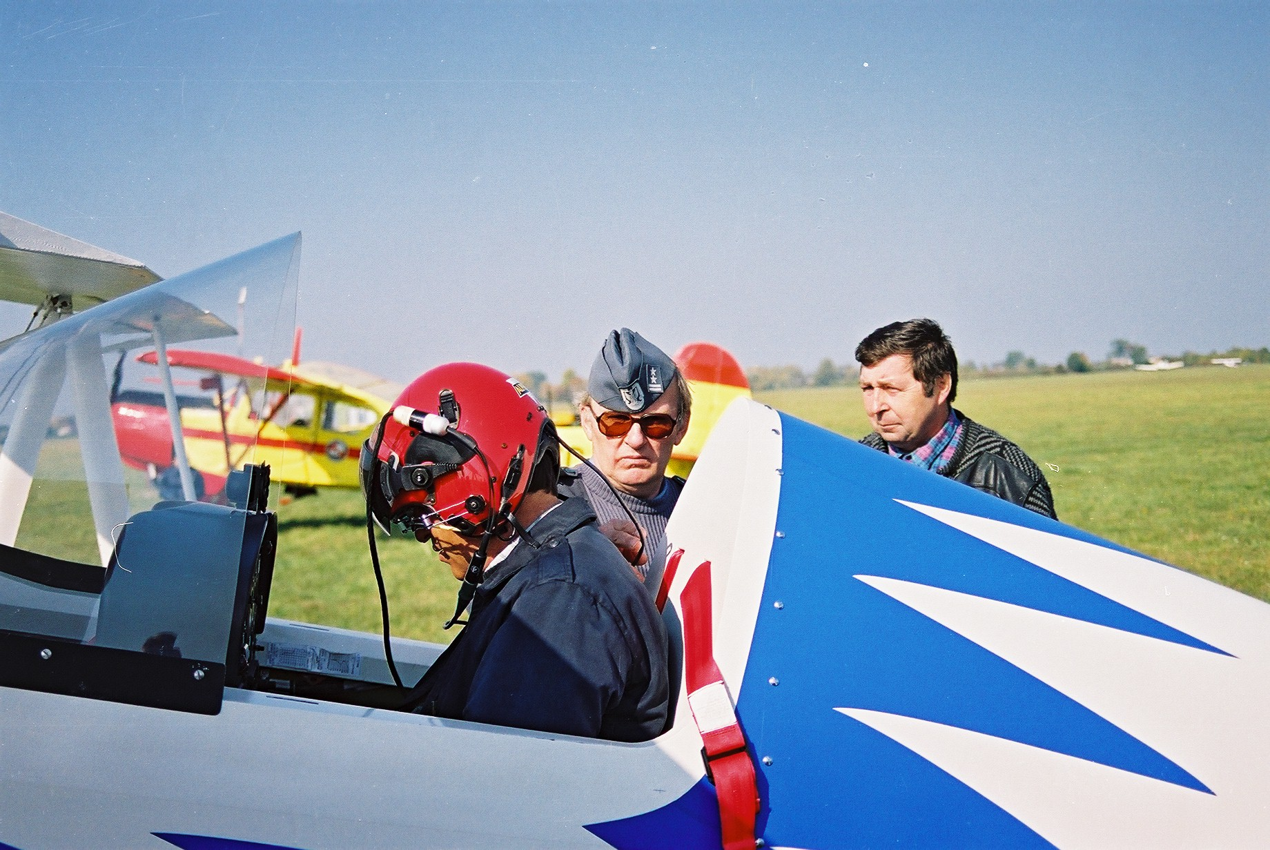 Flight test – test pilot MSc Maciej Aksler